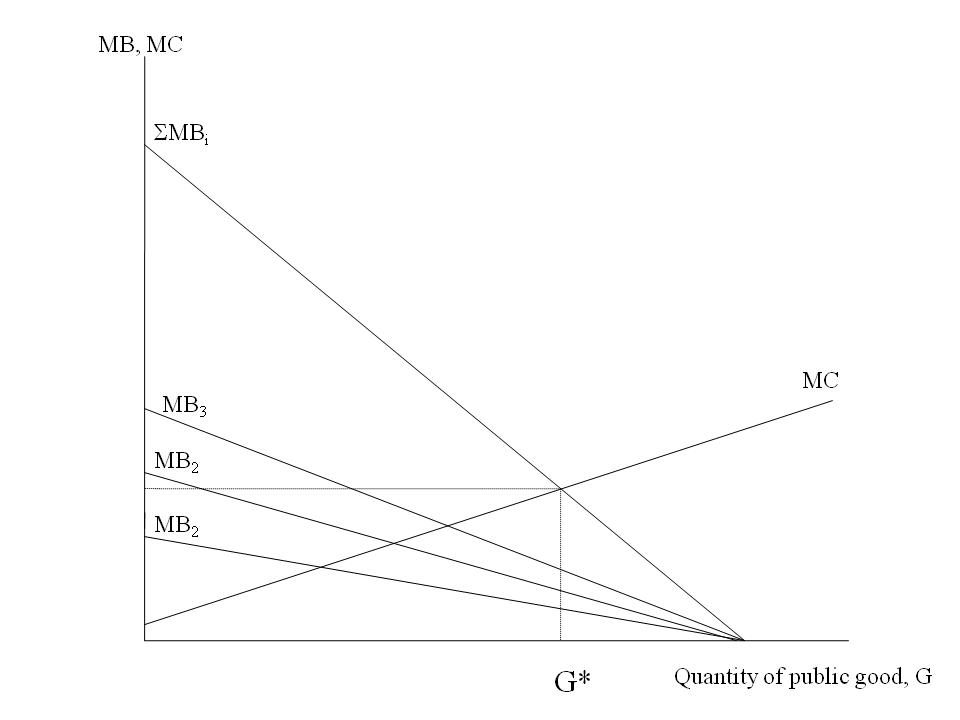 An interpretation of the Samuelson condition using supply and demand curves.